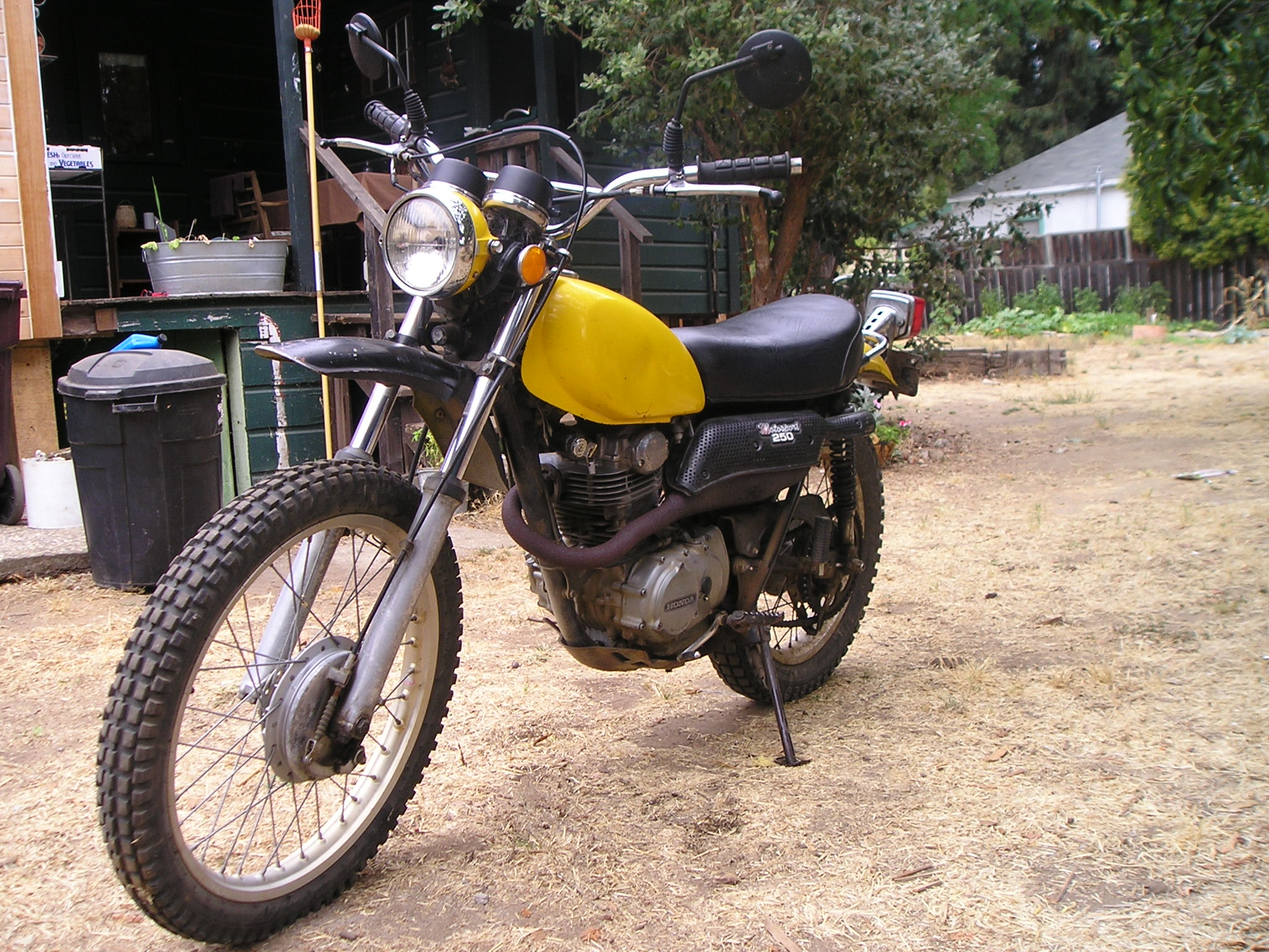 1973 Honda XL 250 Enduro Motorcycle